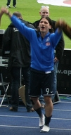 Marko Pantelić celebrating with the fans after a Bundesliga match of Hertha BSC